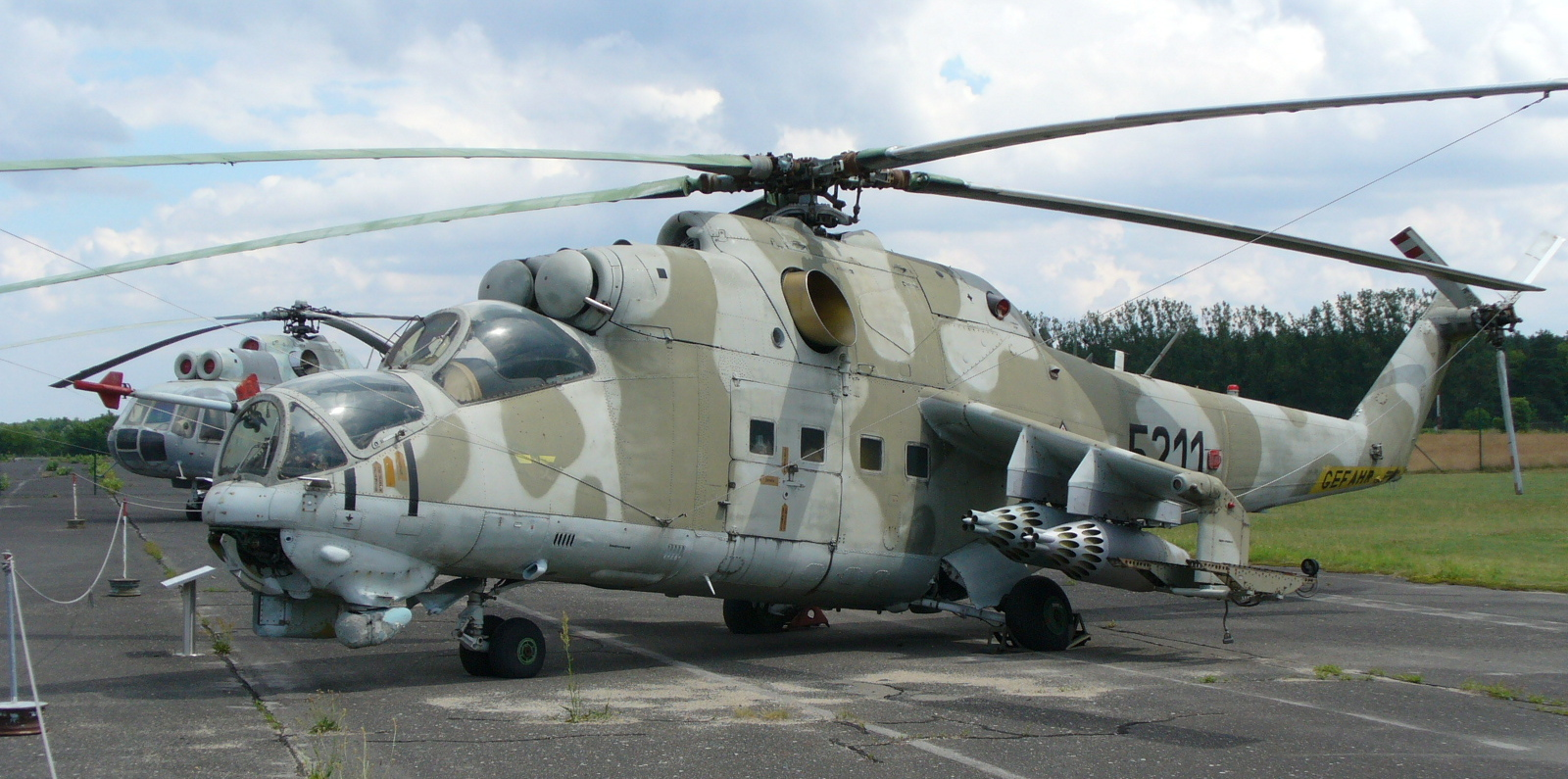 Mi-24D (NATO: Hind-D) attack helicopter in the Luftwaffenmuseum in Gatow.